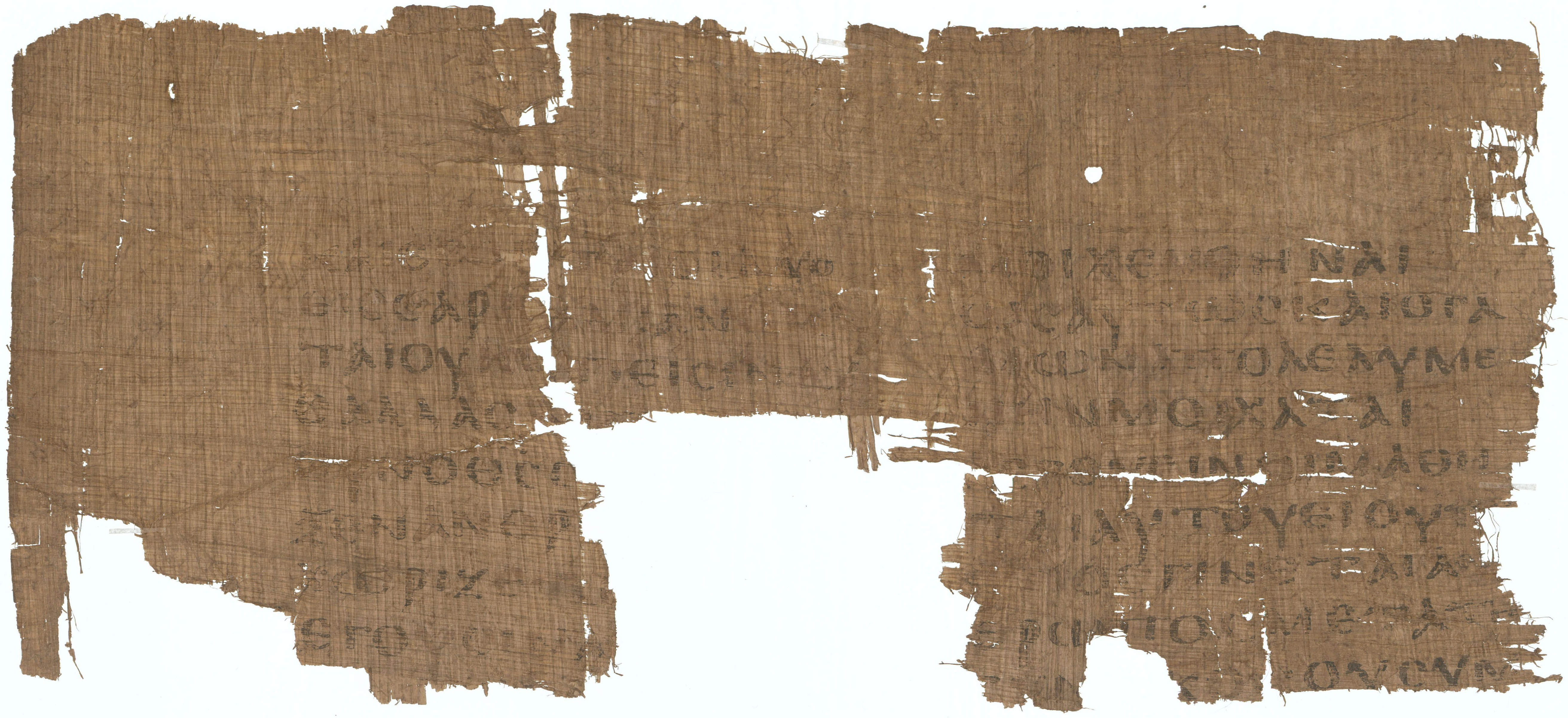 Papyrus 25 - Staatliche Museen zu Berlin inv. 16388 - Gospel of Matthew 18:32-34 19:1-3.5-7.9-10 - verso